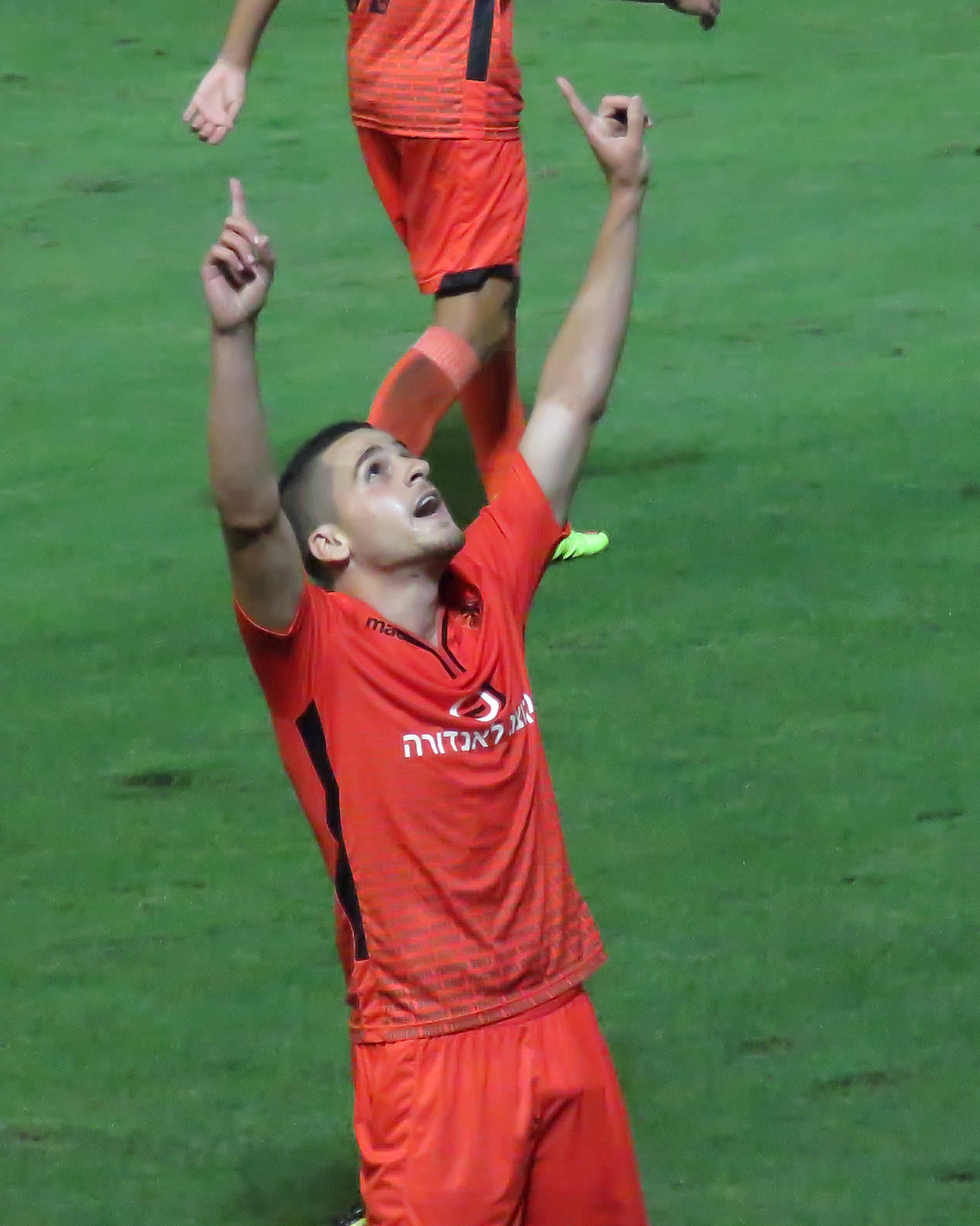 Bnei Yehuda Tel Aviv vs. Beitar Jerusalem - 19 September, 2015